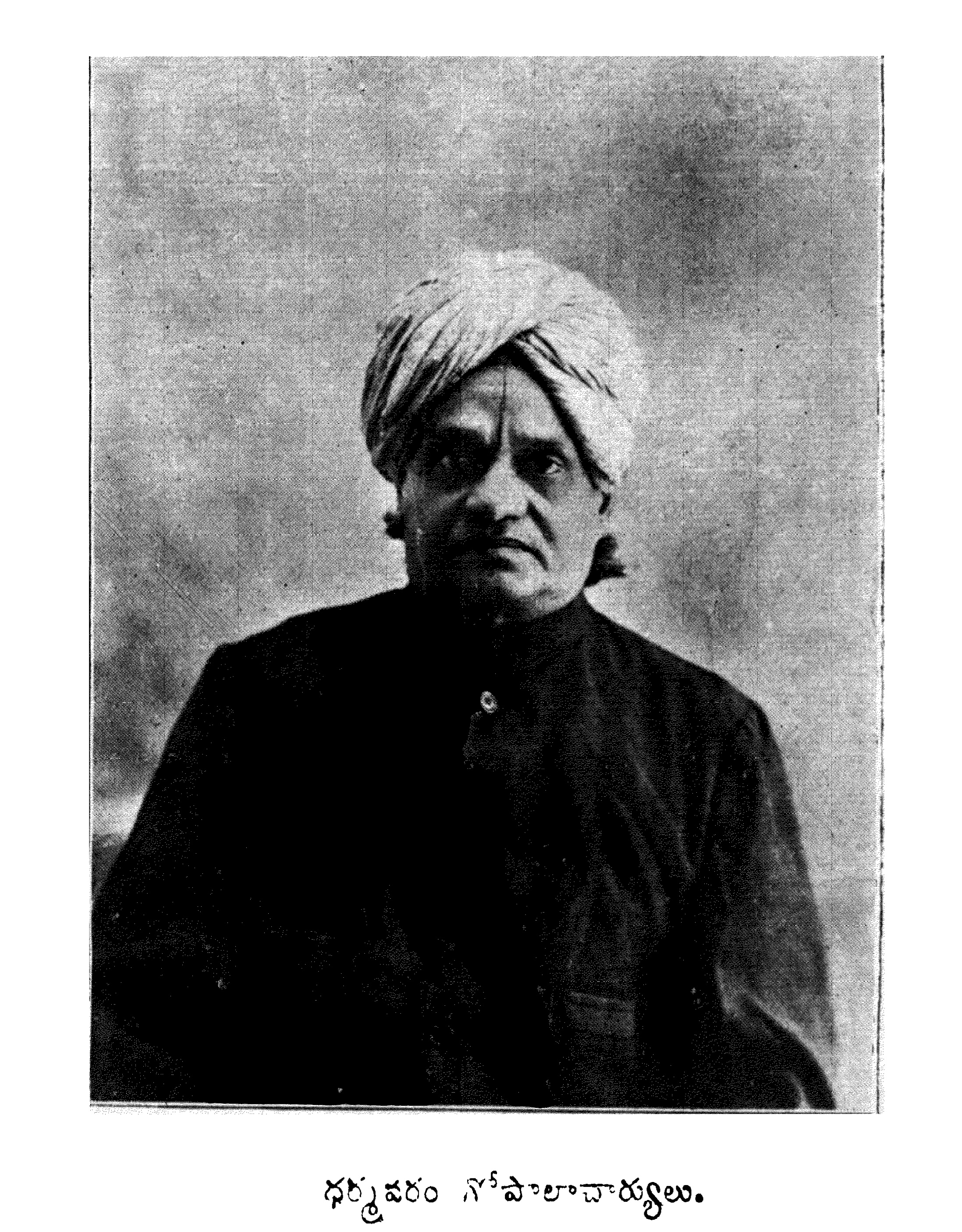 Famous telugu dramatist Dharmavaram Gopalacharyulu